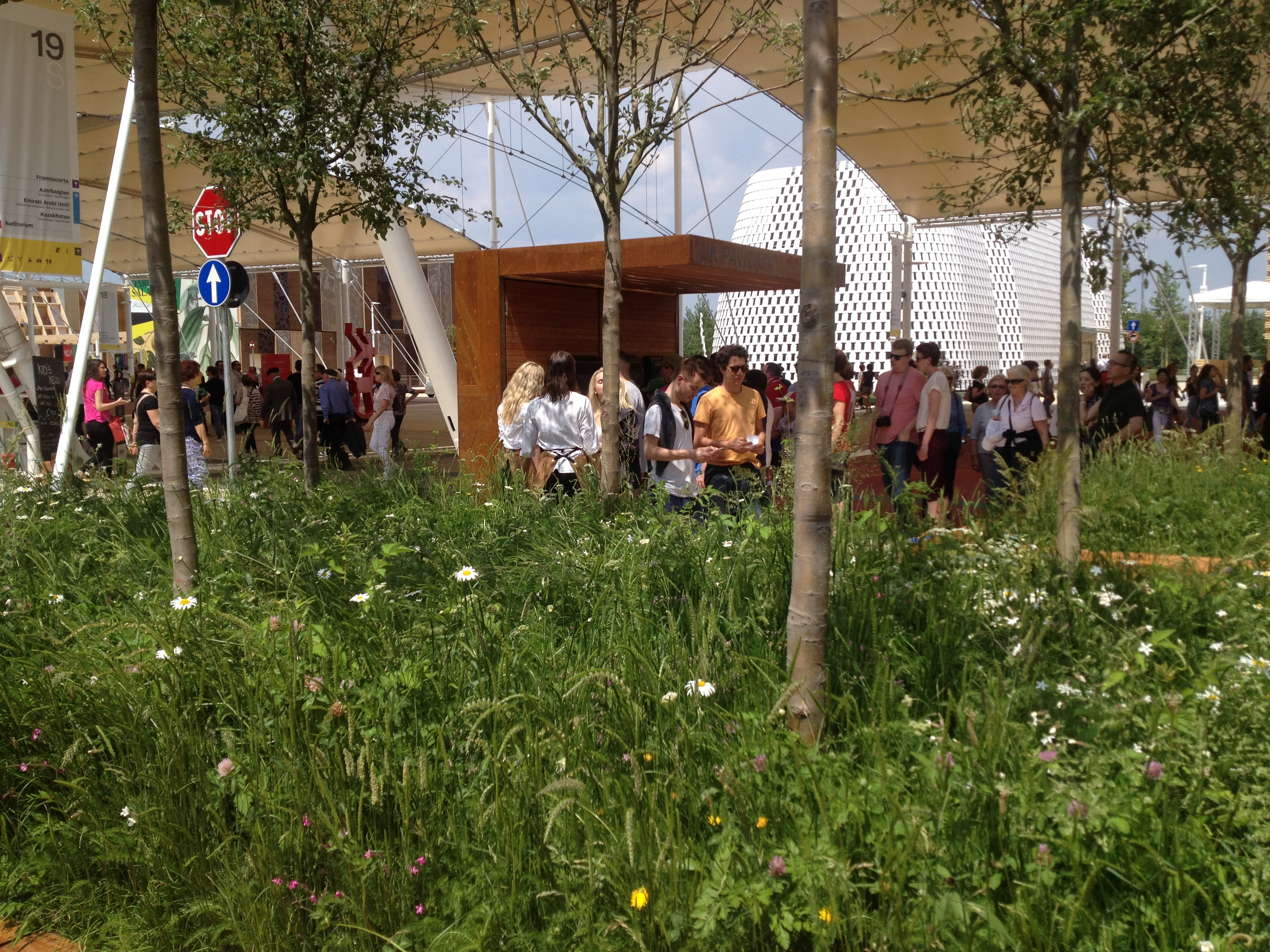 UK Pavilion, Expo 2015, Milan, Italy.